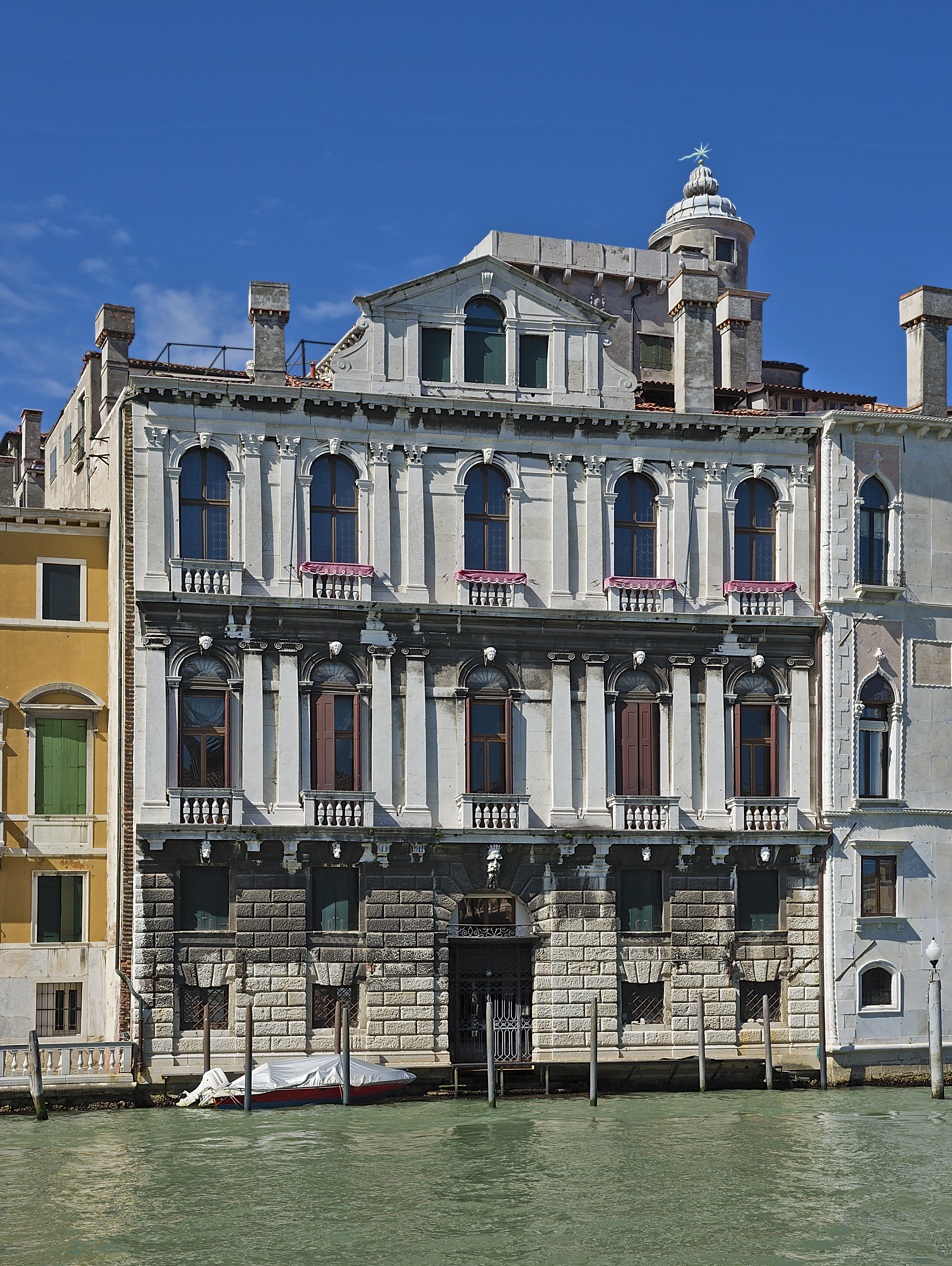 Palazzo Contarini degli Scrigni, Venice facade.